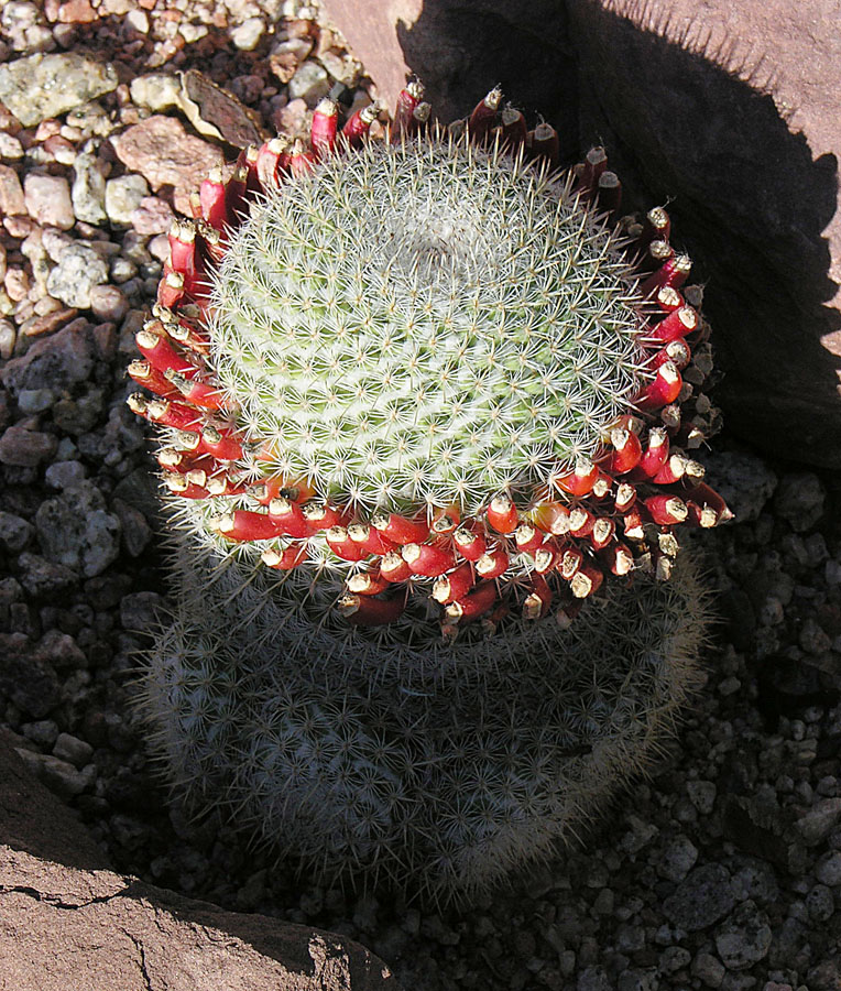 Native to southern Mexico. Jardin Botanico Chirau Mita, Chilecito, Argentina.